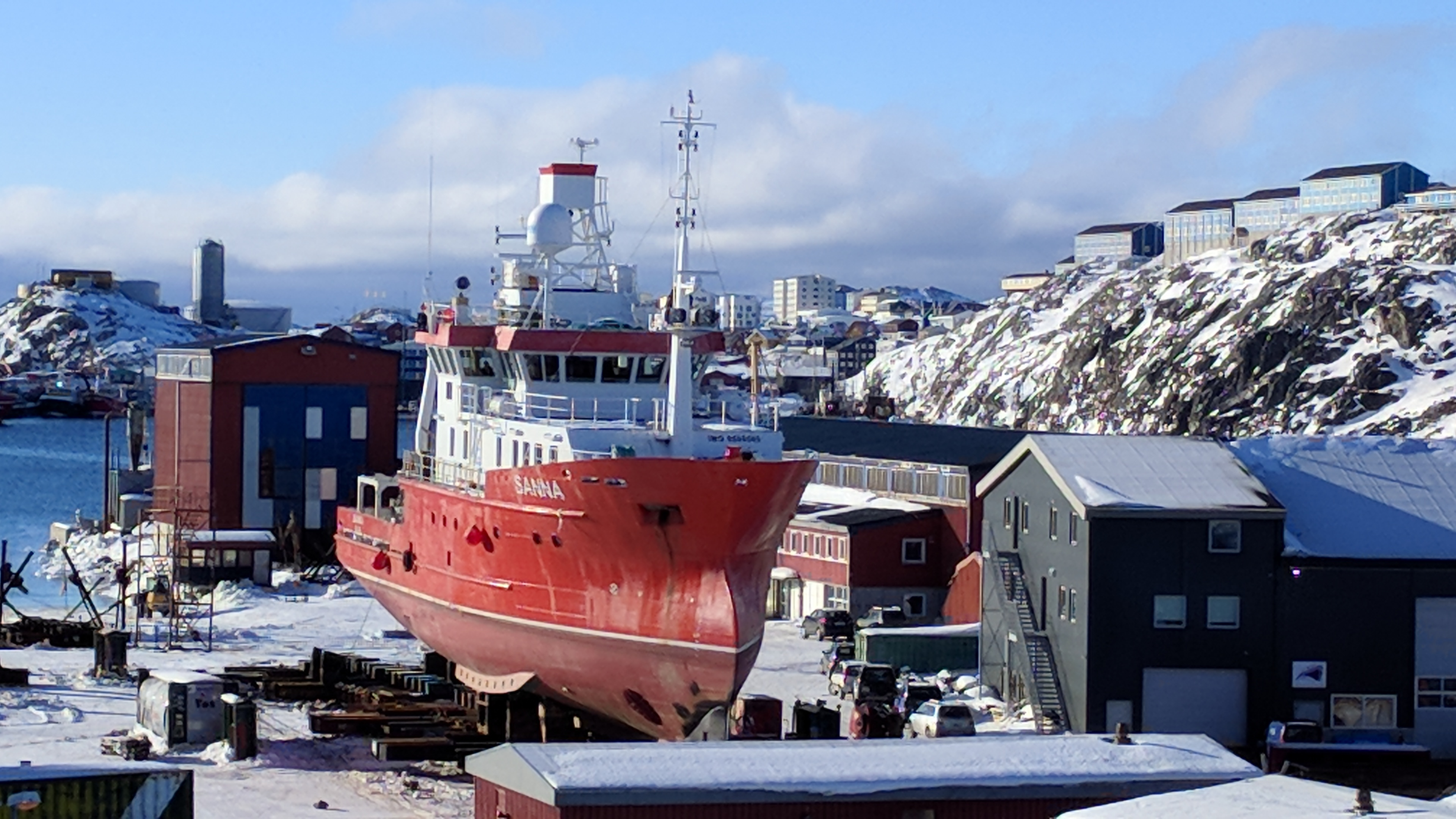 On dock in Nuuk February 2018 to install multi beam sonar